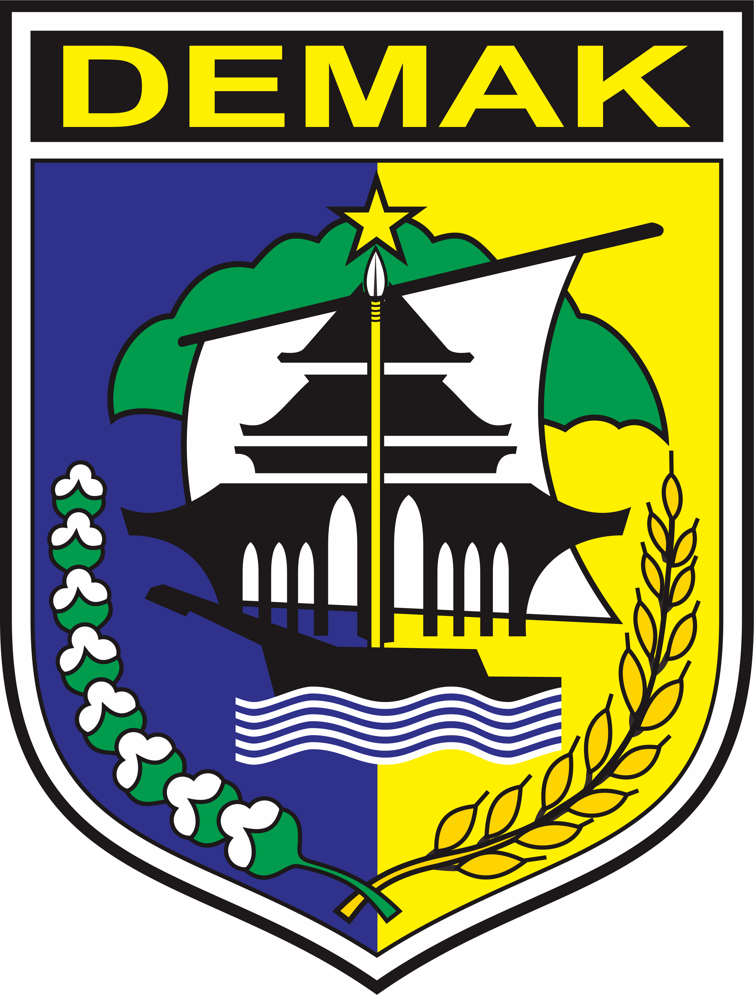 Coat of arms of Demak Regency, Central Java